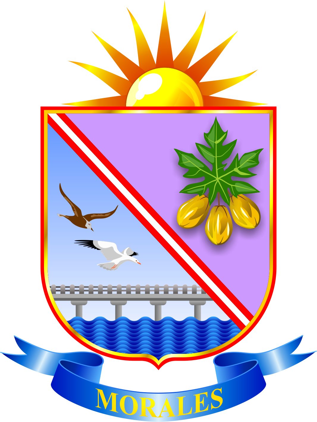 Coat of Arms of the District of Morales - Province of San Martín - Region San Martín